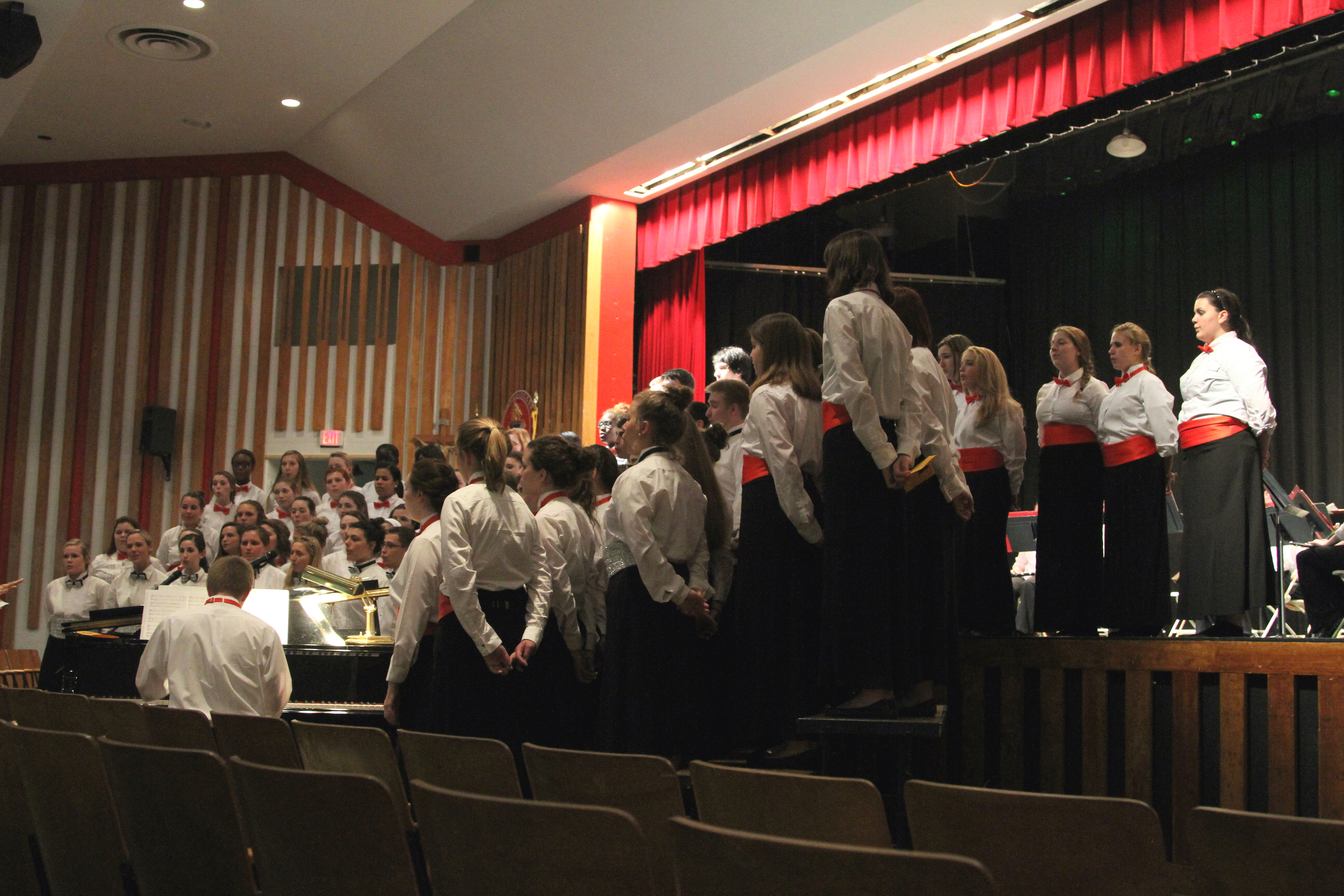 Archbishop Carroll High School Music Department Radnor PA Spring Concert 2012